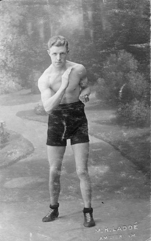 Picture of Felix Janssen, a 1920s Dutch boxer Foto van de Nederlandse bokser Felix Janssen uit de jaren '20.